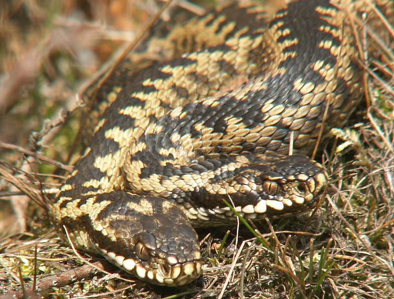 Two male Adders (Vipera berus) in close synchronization at the start of the mating season